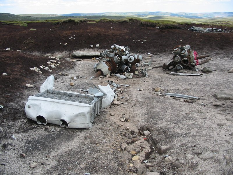 General view of the aircraft wreakage. Taken by Geotek 2003